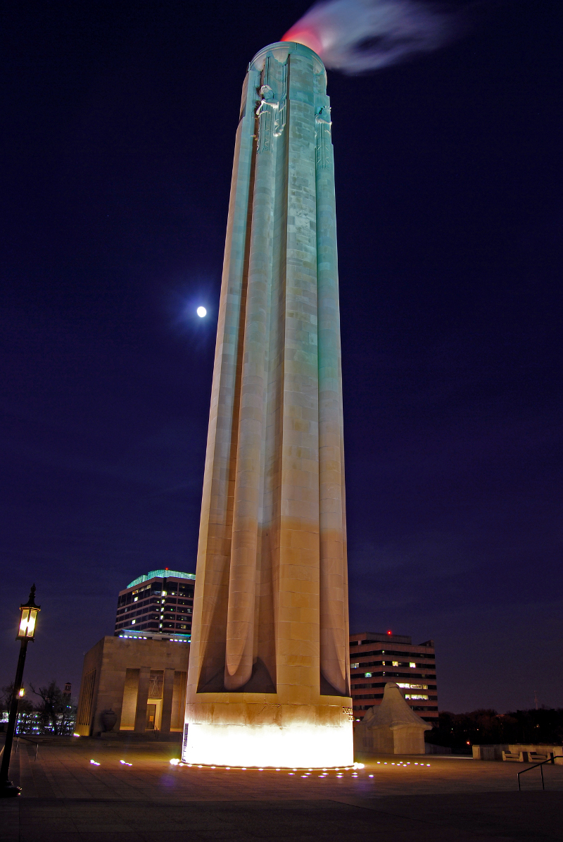 Liberty Memorial in Kansas City, MO after sunset